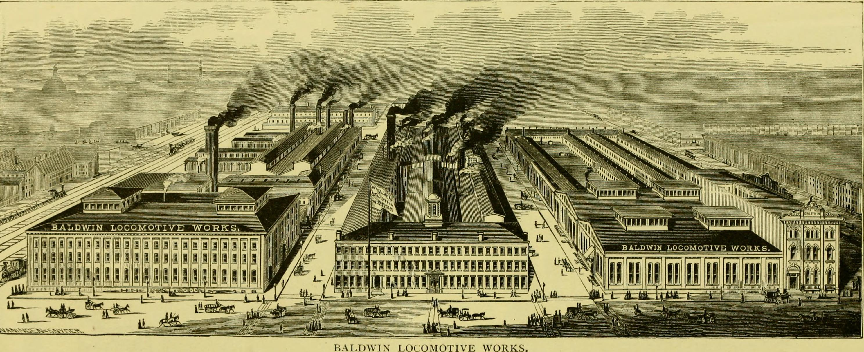 Illustration of Baldwin Locomotive Works, Philadelphia, Pennsylvania Title: Philadelphia and its environs, and the railroad scenery of Pennsylvania Year: 1875 (1870s) Authors: J.B. Lippincott & Co Subjects: Publisher: Philadelphia, J. B. Lippincott & co Text Appearing Before Image: NEW ACADEMY OF FINE ARTS. 52 PHILADELPHIA AND ITS ENVIRONS. Text Appearing After Image: and the collection of birds is bothrich and attractive. It consists ofmore than thirty-one thousandspecimens, and is probably un-equaled by any collection inEurope. This museum has outgrown thebuilding in which it is placed, andsteps are now being taken to erecta building adequate for its wants.A lot has been secured at Nine-teenth and Race Streets, and on itthe fine building of which we pre-sent a view will be placed as soonas the necessary funds can be ob-tained. The great value of themuseum, and the utter inadequacyof its present quarters either to dis-play or to preserve it, will doubtlessbring the citizens of Philadelphiato its assistance at an early day.Even in the present building, how-ever, visitors to the city should byno means fail to see it. It is opento the public on Tuesday andThursday afternoons, at whichtimes an entrance fee of ten centsis charged. Next door to the Academy ofNatural Sciences stands the LaPierre House, one of the best hotelsin the city. It is six stories